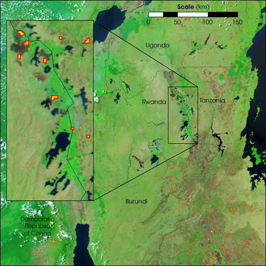 Original caption states, "In east-central Africa, numerous fires (marked in yellow), probably agricultural in purpose, were burning when the Moderate Resolution Imaging Spectroradiometer (MODIS) on NASA’s Aqua satellite captured this image on July 5, 2004. Unfortunately, in the Kagera National Park that hugs the far eastern margin of Rwanda, the fires may not be routine agricultural burning. According to news reports, wildfires started by poachers may have burned as much as one-third of the protected land in the park. The dense vegetation (bright green) of the small park (seen in rectangular inset) is marred by several reddish-brown burn scars, the largest in the northern tip of the park, surrounded by three actively burning fires. Water in the image appears dark blue or nearly black."